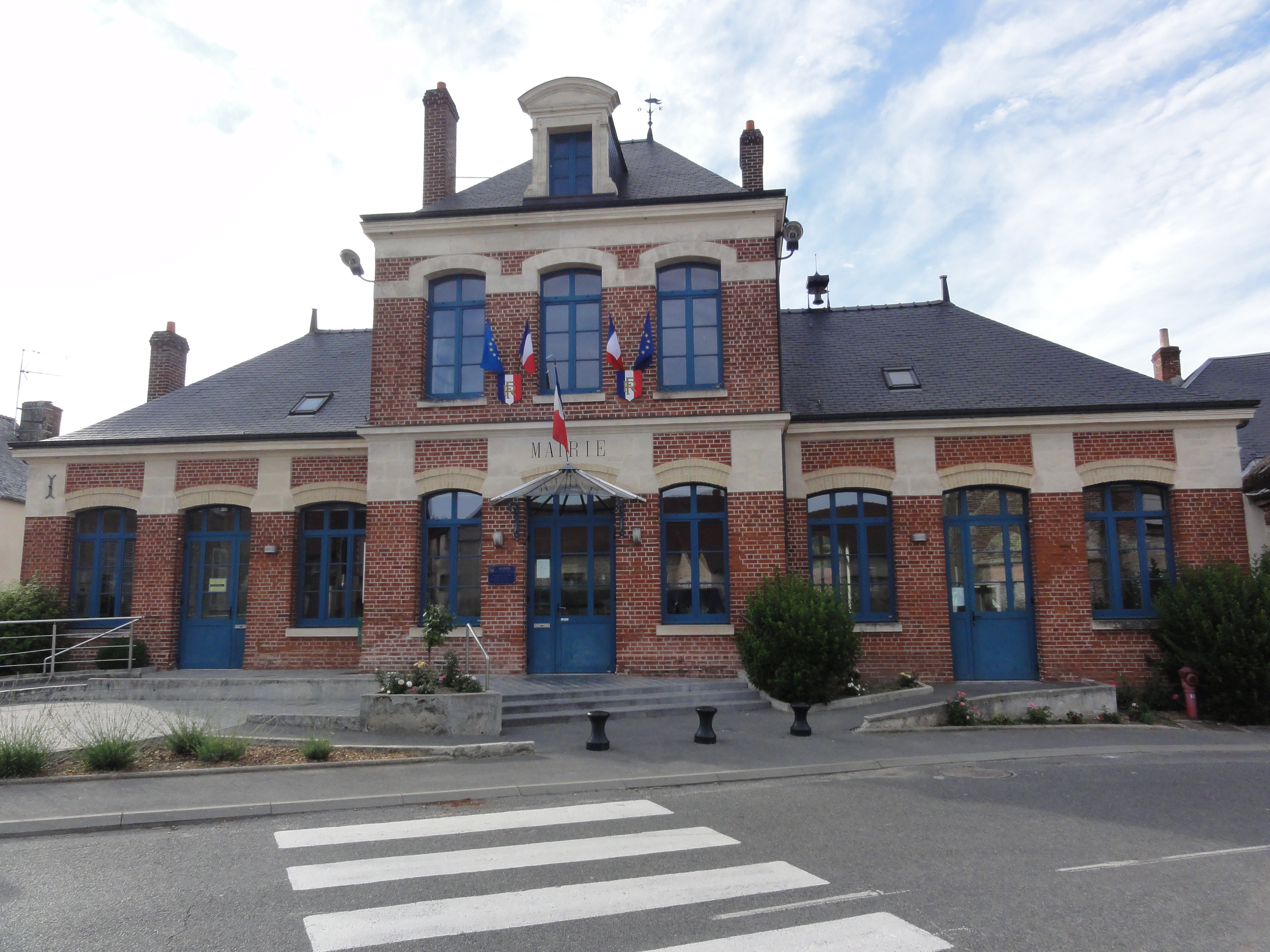 Saint-Erme-Outre-et-Ramecourt (Aisne) mairie